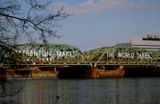 Trenton Makes The World Takes